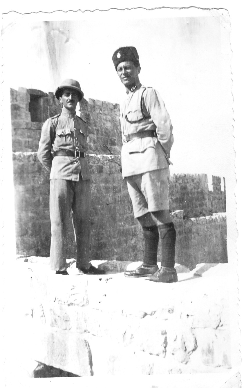 Ghaffirs in Jerusalem during the British Mandate in palestine